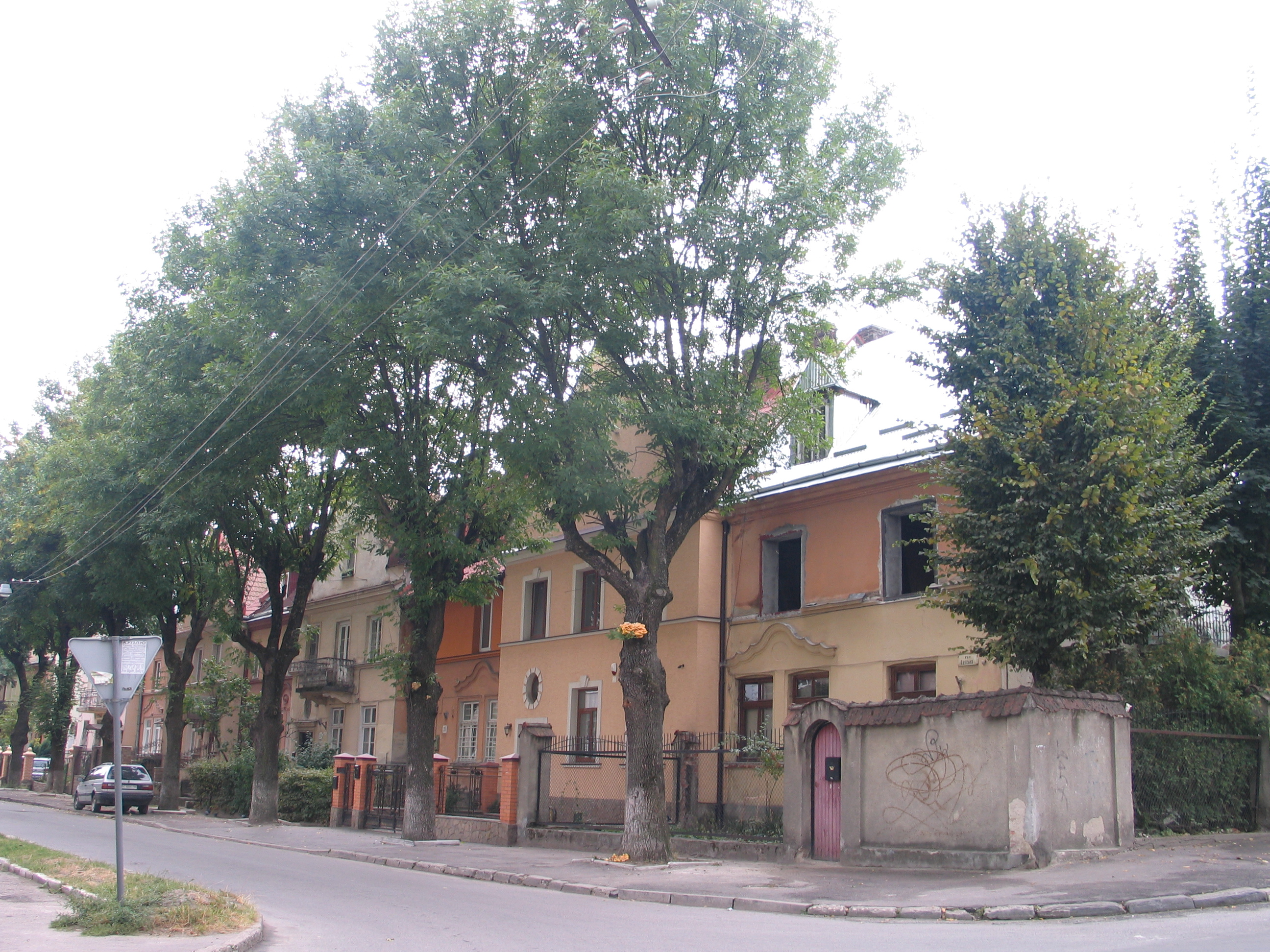 Odeska Street, corner of Morozenka Street